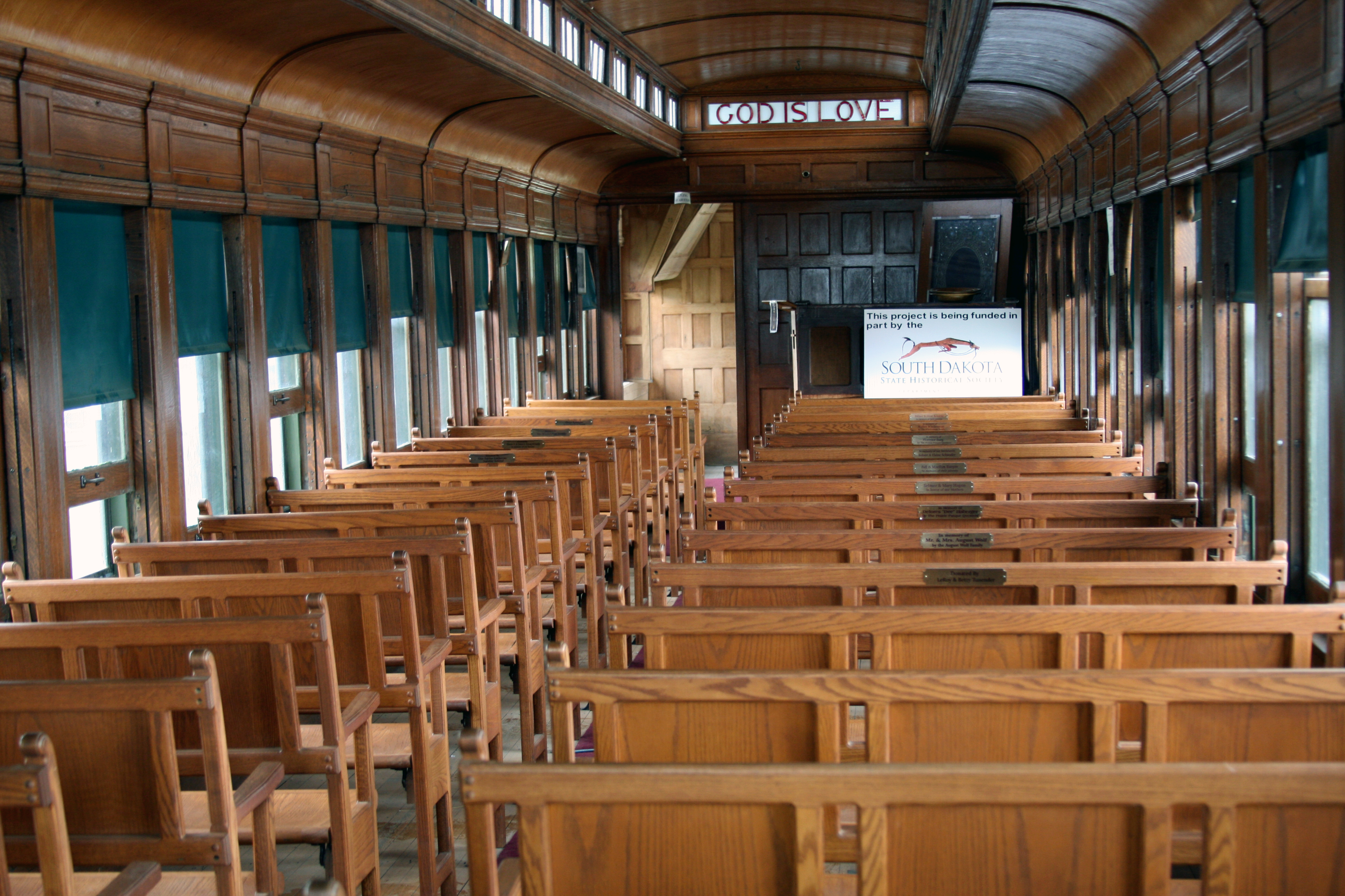 The Emmanual Church Railroad Car in Prairie Village, South Dakota.